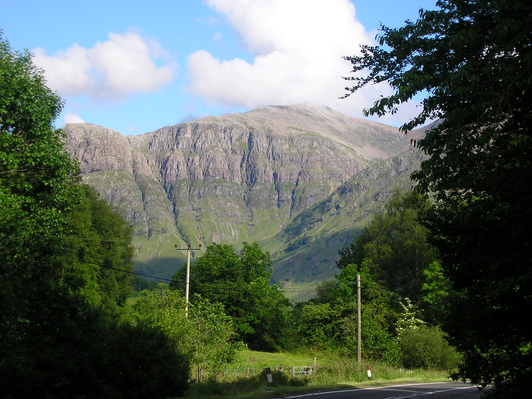 Sunnier later on: Bidean would look much better if those telegraph poles weren't there!